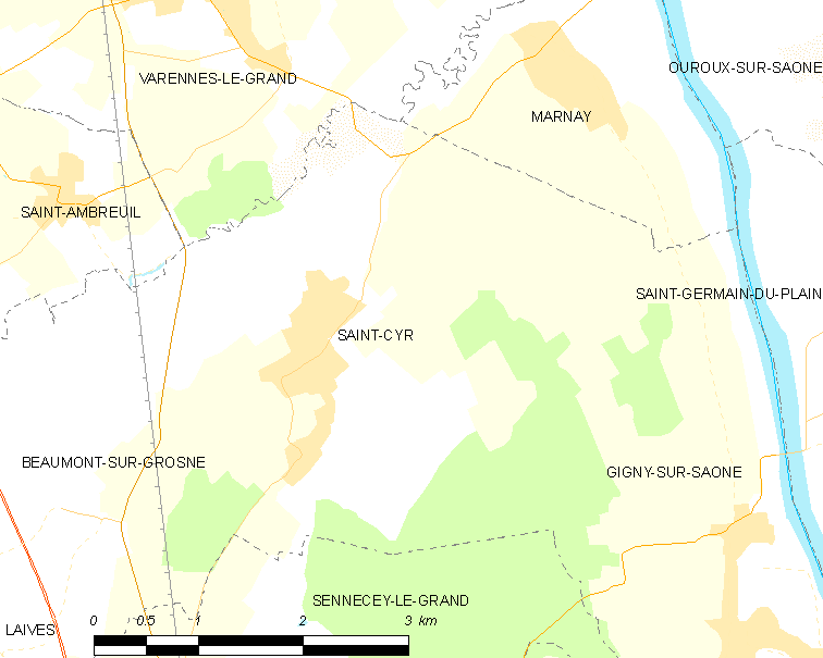 Map of French municipality